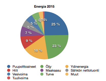 Energy consumption by source in Finland first half of 2015